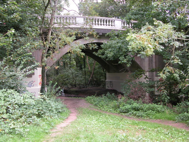 Bridge over the river Trym